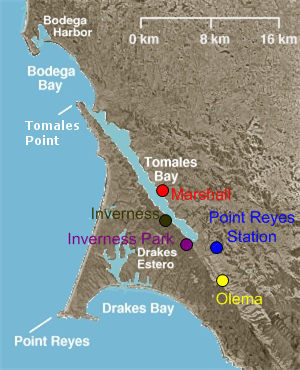 Point Reyes Peninsula, with Tomales Point illustrated. Modified from image File:WestMarinTowns.png by George William Herbert and Matthew Trump.